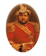 Colonel, Bada Hakim Gajaraj Singh Thapa in military attire.